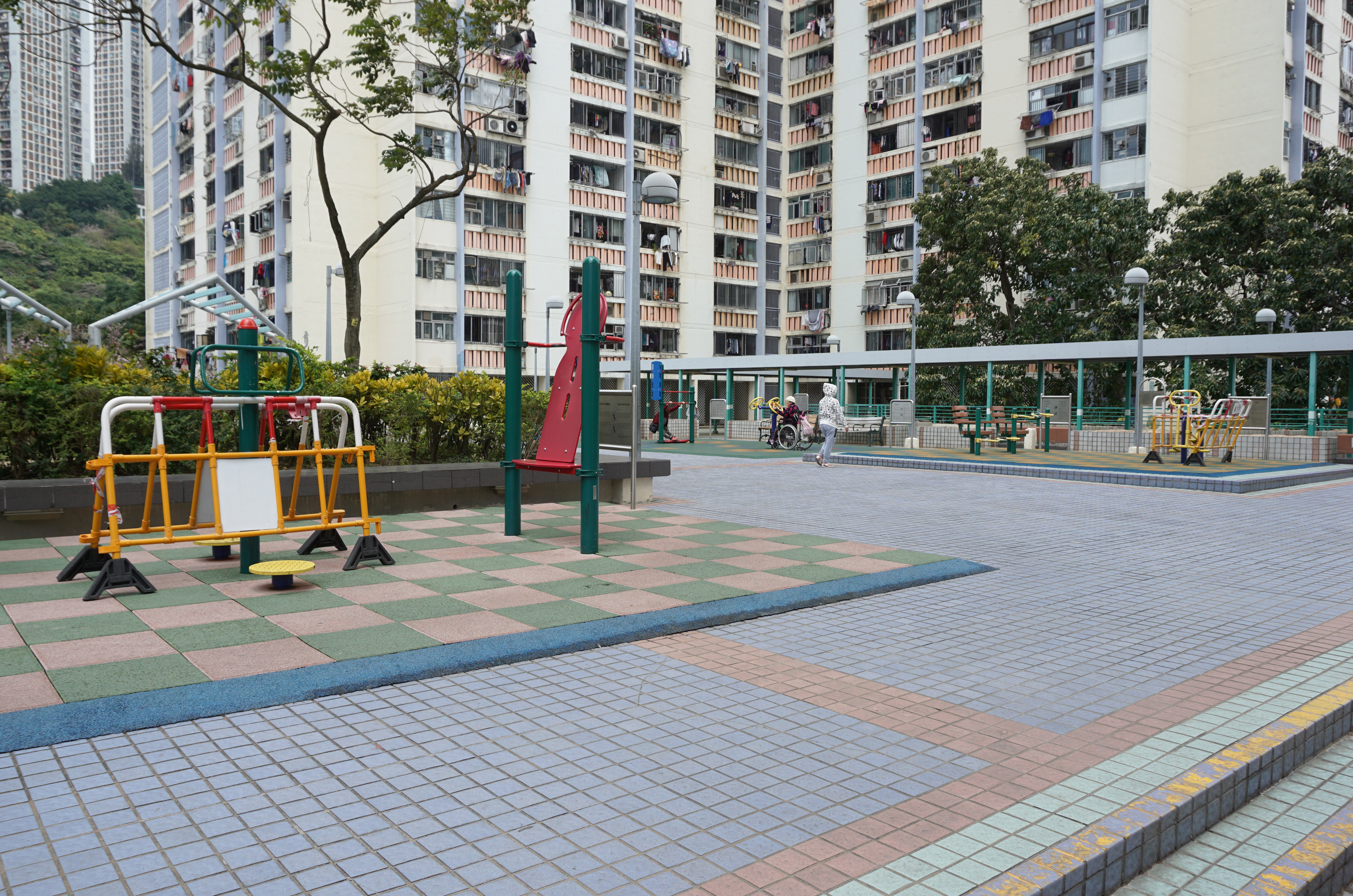 Wo Che Estate in Shatin, Hong Kong.